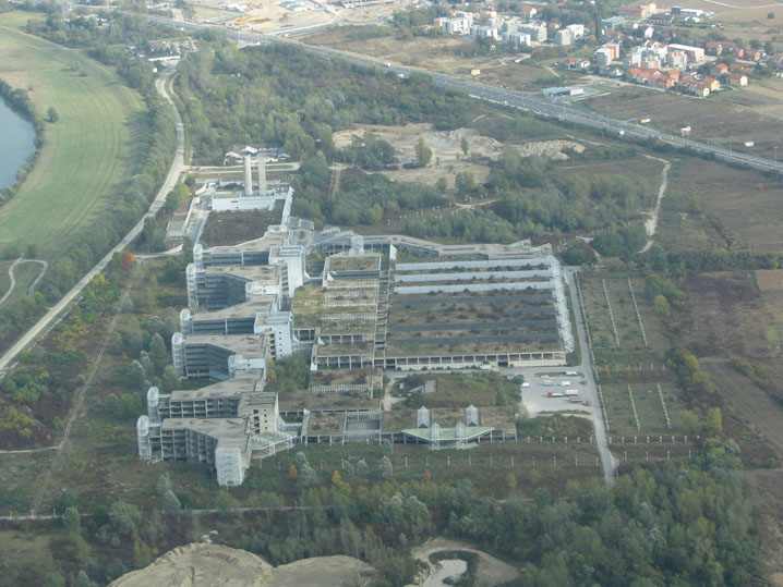 Construction site in Blato, Zagreb - "University hospital"